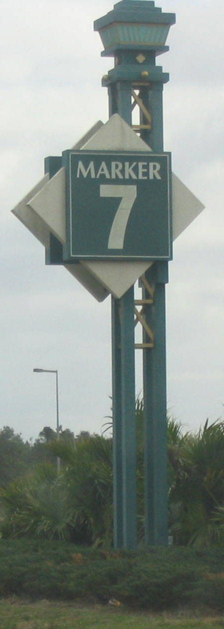 One of the "mile" markers on U.S. Highway 192. Taken February 6, 2005 by User:SPUI.